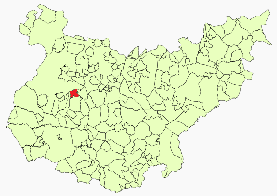 Corte de Peleas